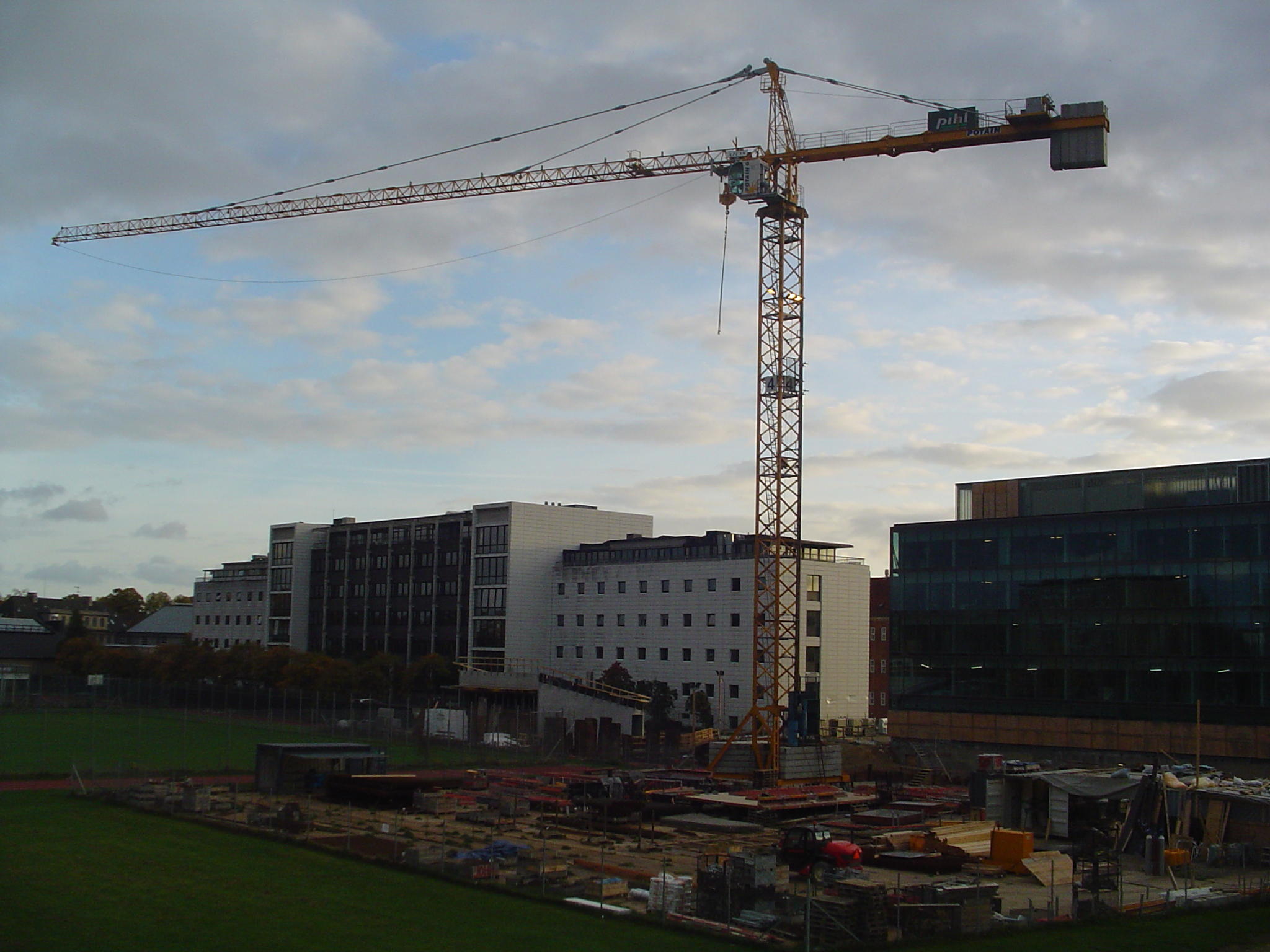 A crane (machine). Taken by User:Thue on 26/10-2005.